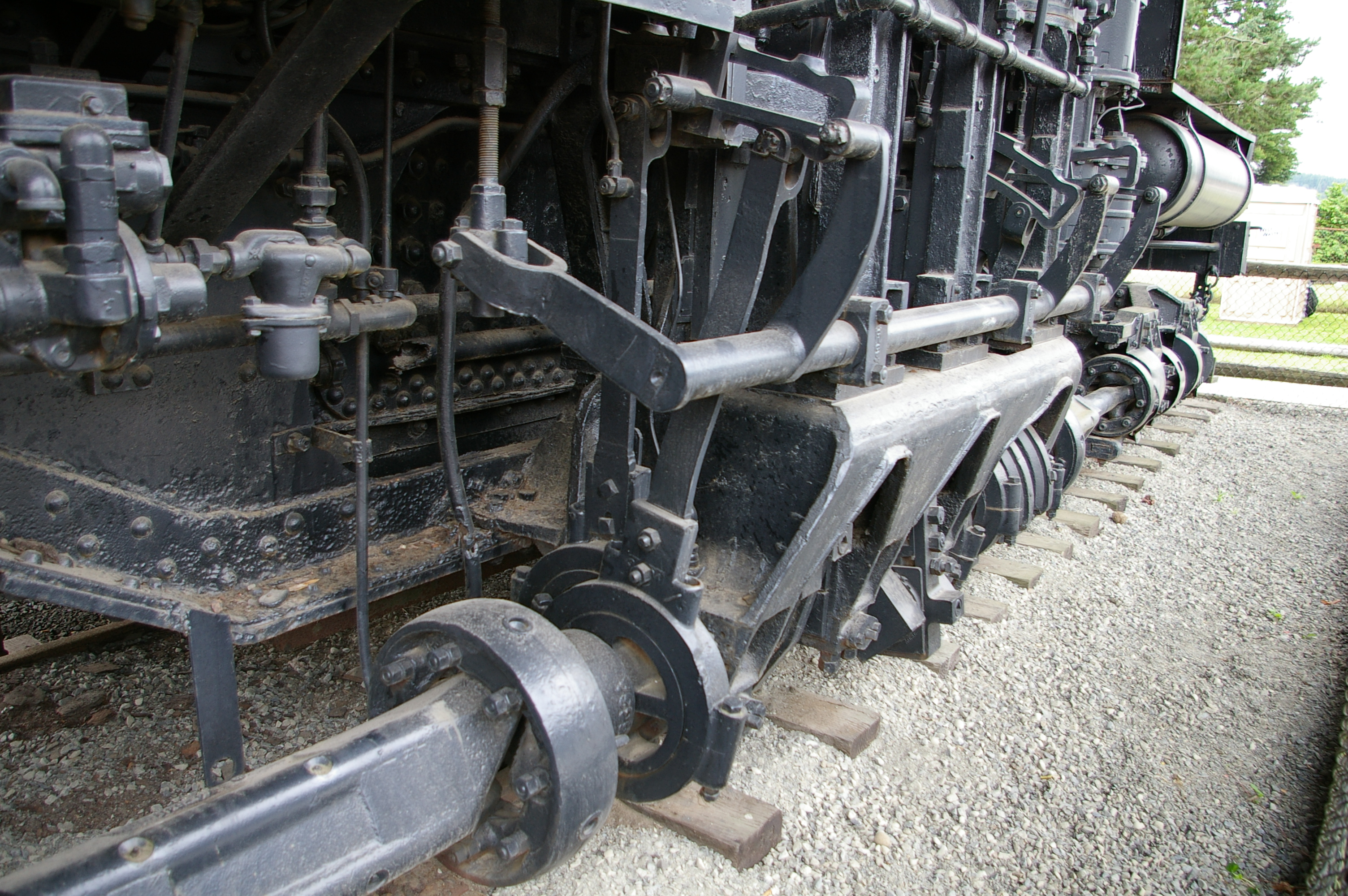 Forks, Washington Shay Locomotive - view of crankshaft